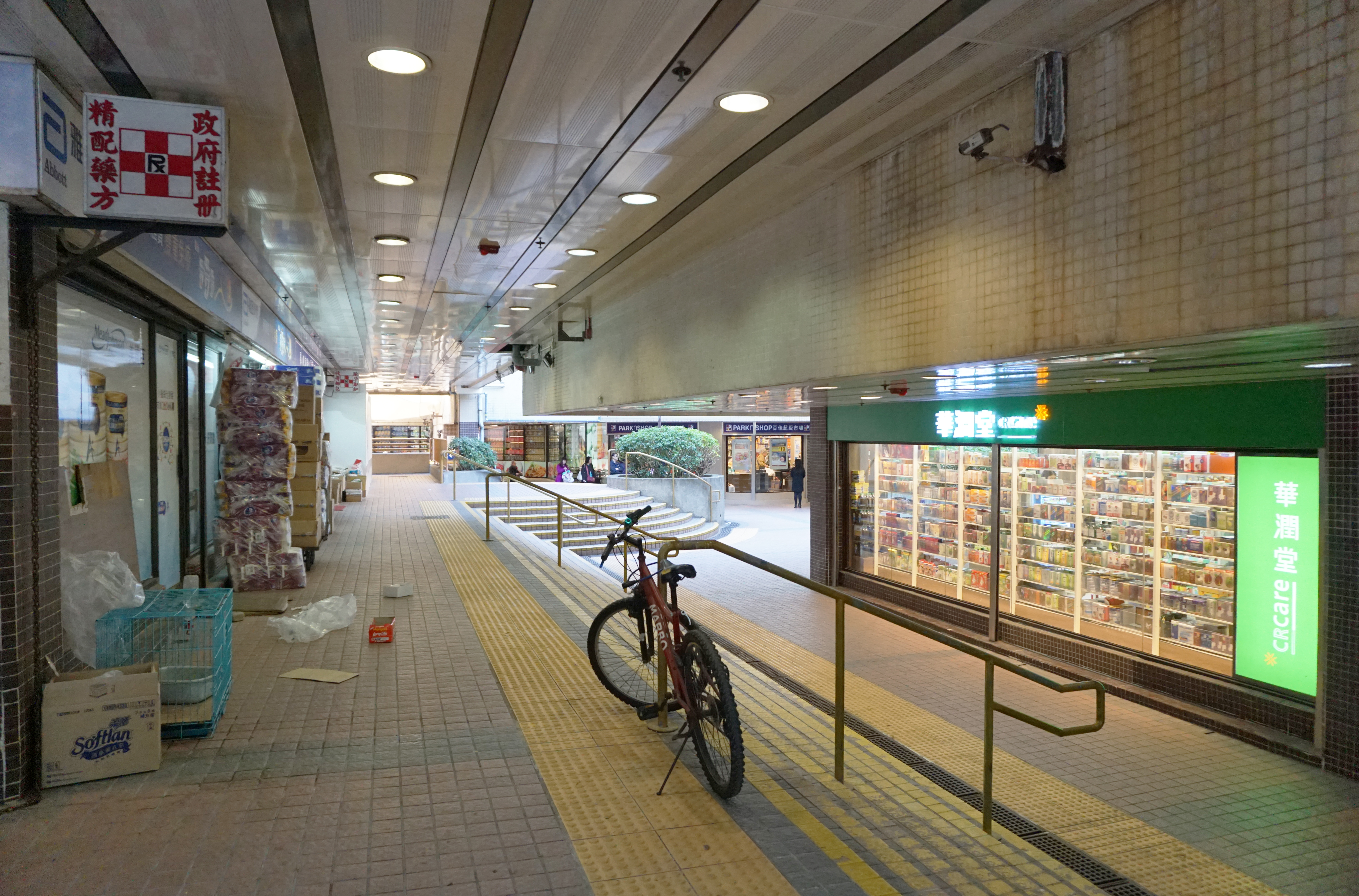 Hin Keng Shopping Centre in Tai Wai, Hong Kong.